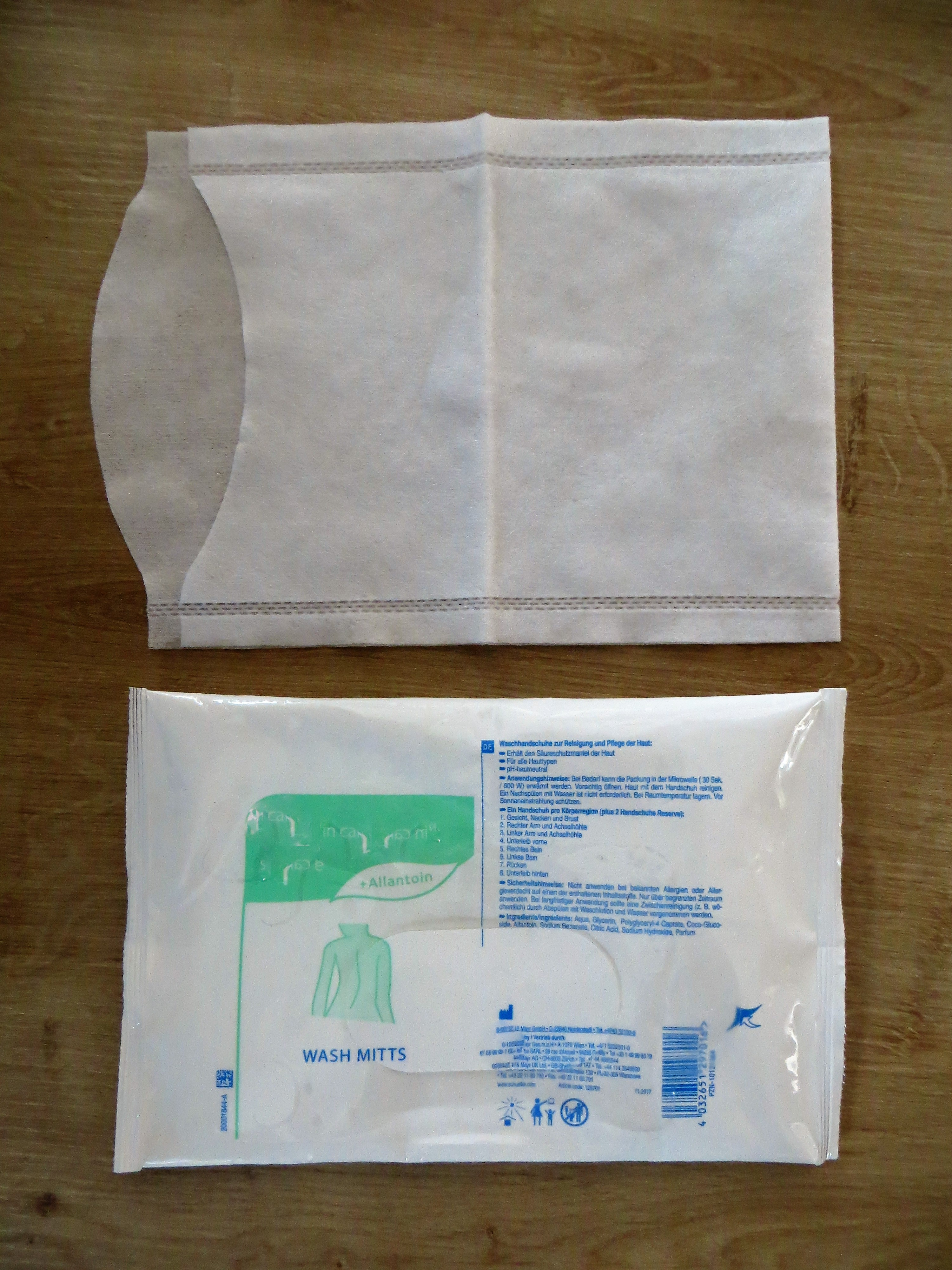 Pack of skin care wash mitts